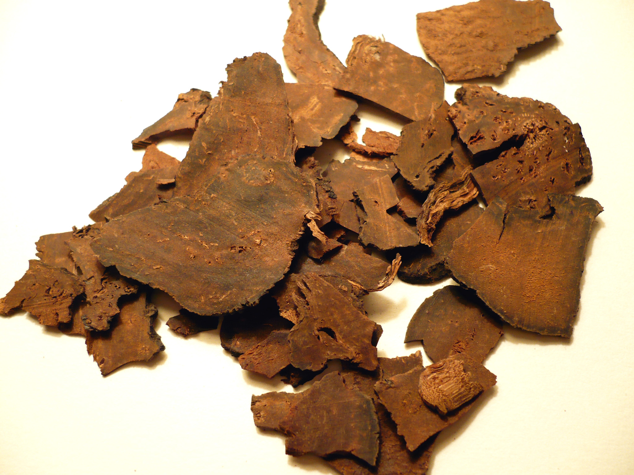 Organic dried Fallopia multiflora (syn. Polygonum multiflorum) root. Photo taken in Kent, Ohio with a Panasonic Lumix digital camera (model DMC-LS75). Wildharvested Fallopia multiflora root (produced in China) purchased from Mountain Rose Herbs of Eugene, Oregon, United States.